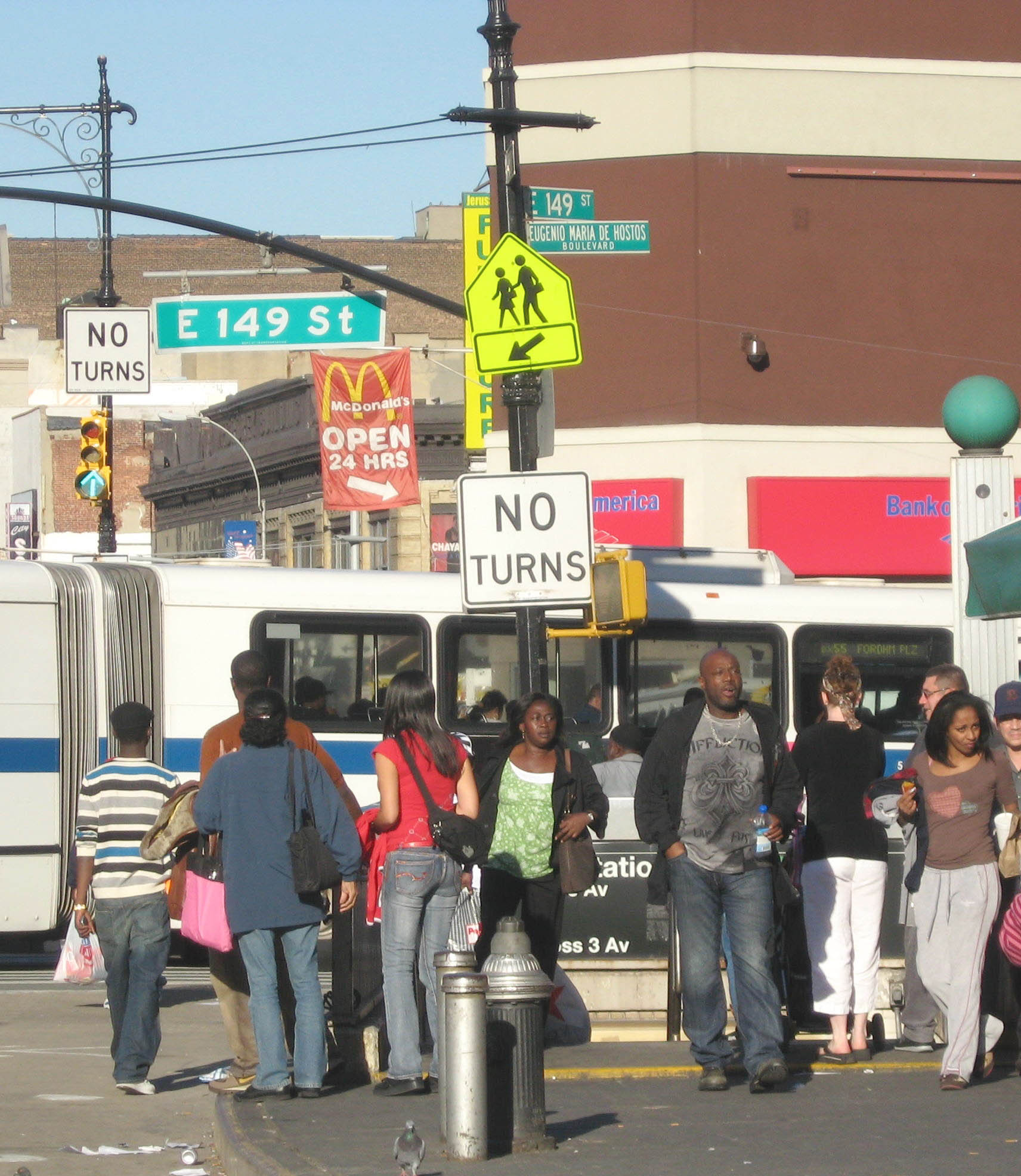 Looking north at Third Avenue–149th Street (IRT White Plains Road Line) street stair on a sunny afternoon. ZIP 10455.